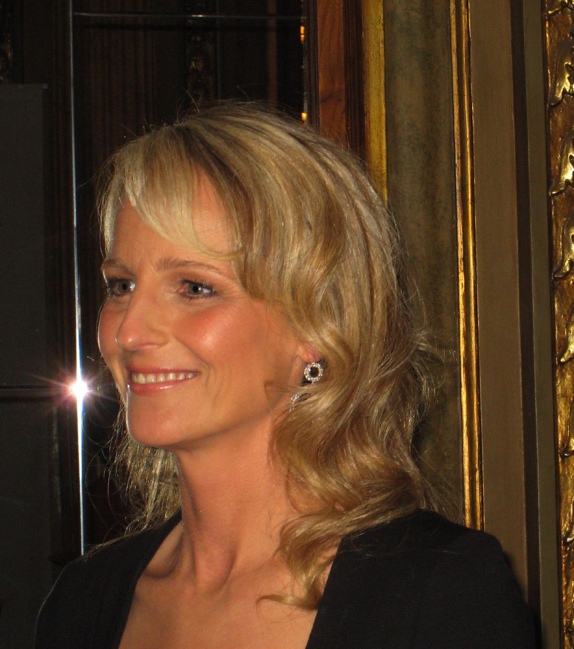 Helen Hunt at the Elgin Theatre during the 2007 Toronto International Film Festival for her film, Then She Found Me.